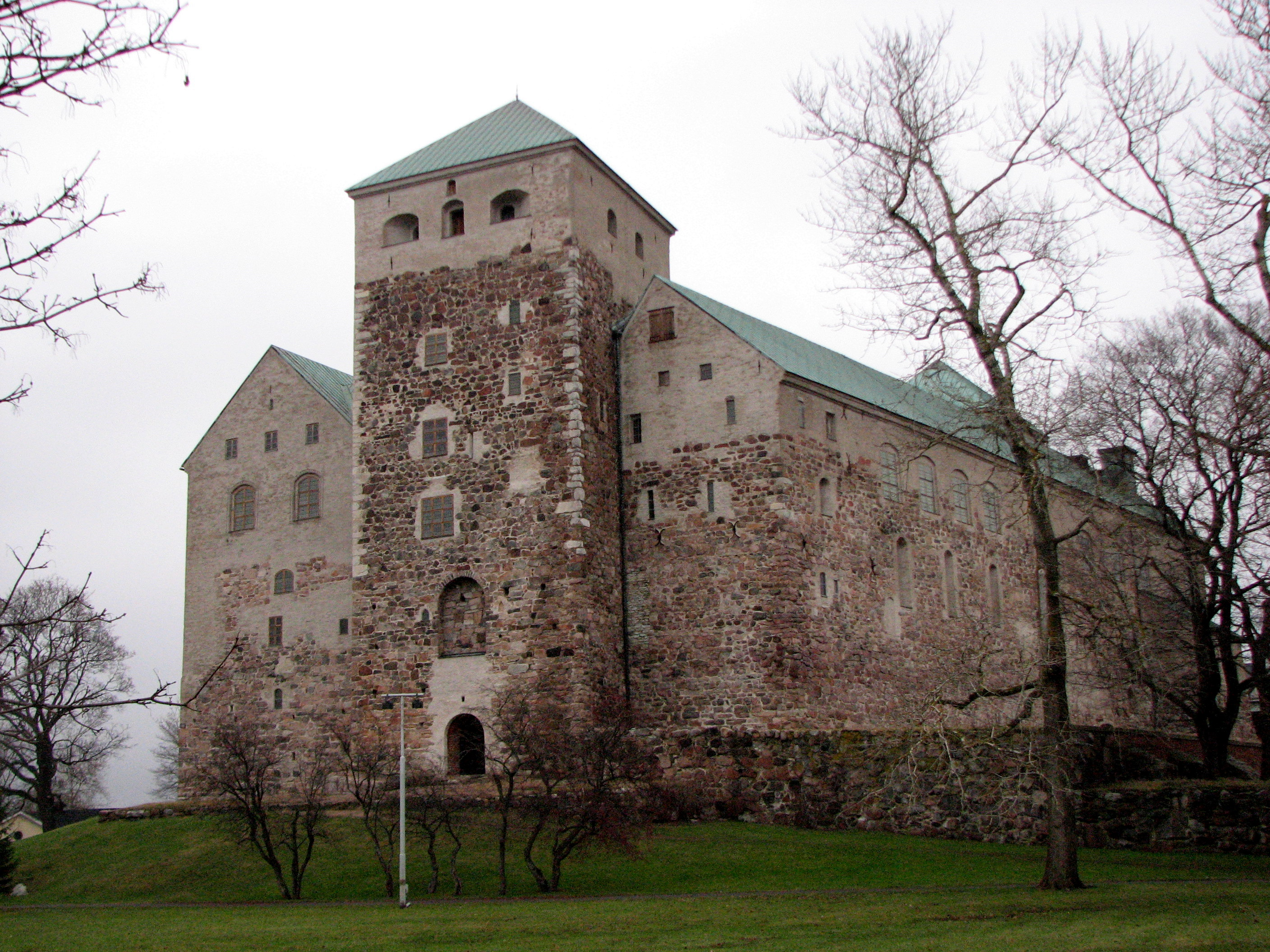 The medieval keep of Turku Castle as seen from the harbour side.